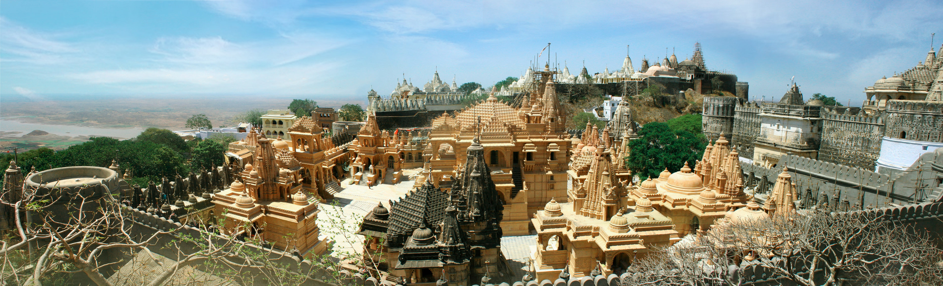 Jain aspires to climb to the top of the mountain at least once in his lifetime, at Palitana